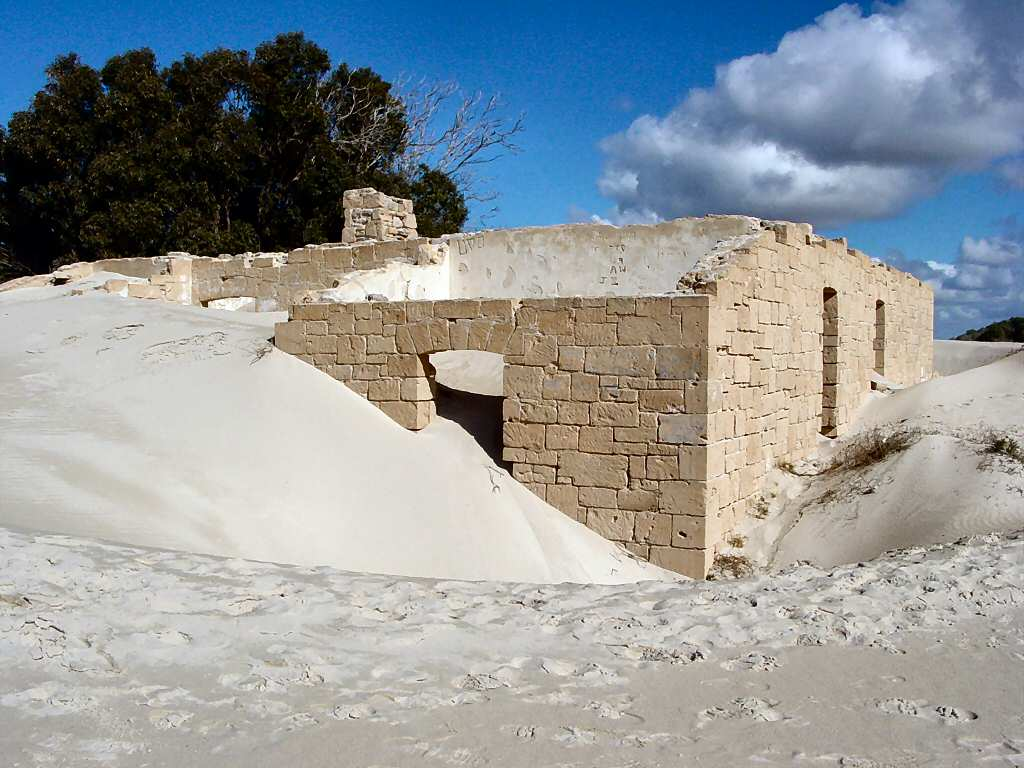 Photo taken and supplied by Brian Voon Yee Yap. Telegraph Station.